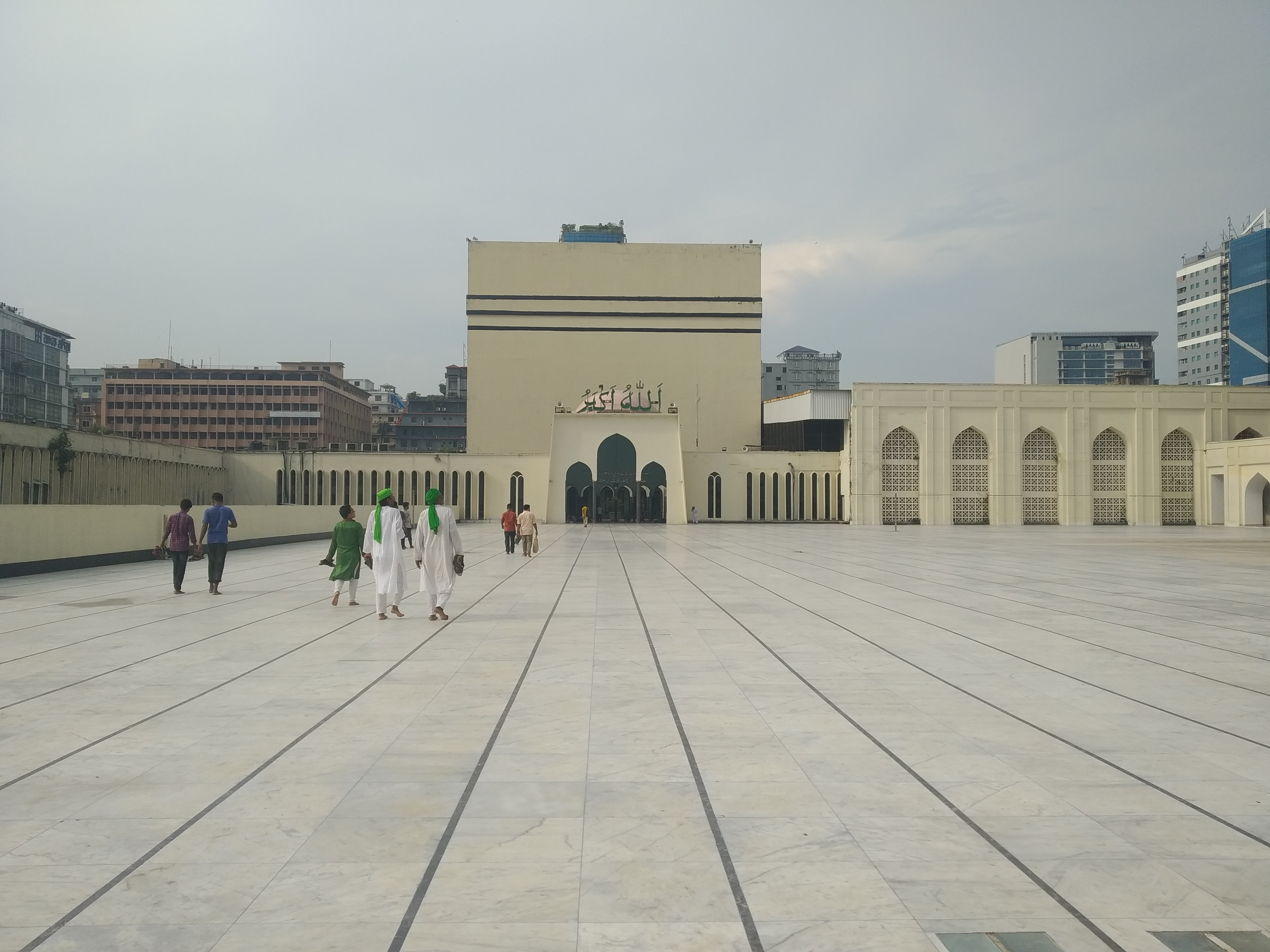 It is located in Dhaka, Bangladesh. The mosque is like Kabba. Natives describe it White kabba.